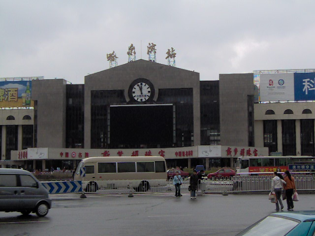 Harbin railway station